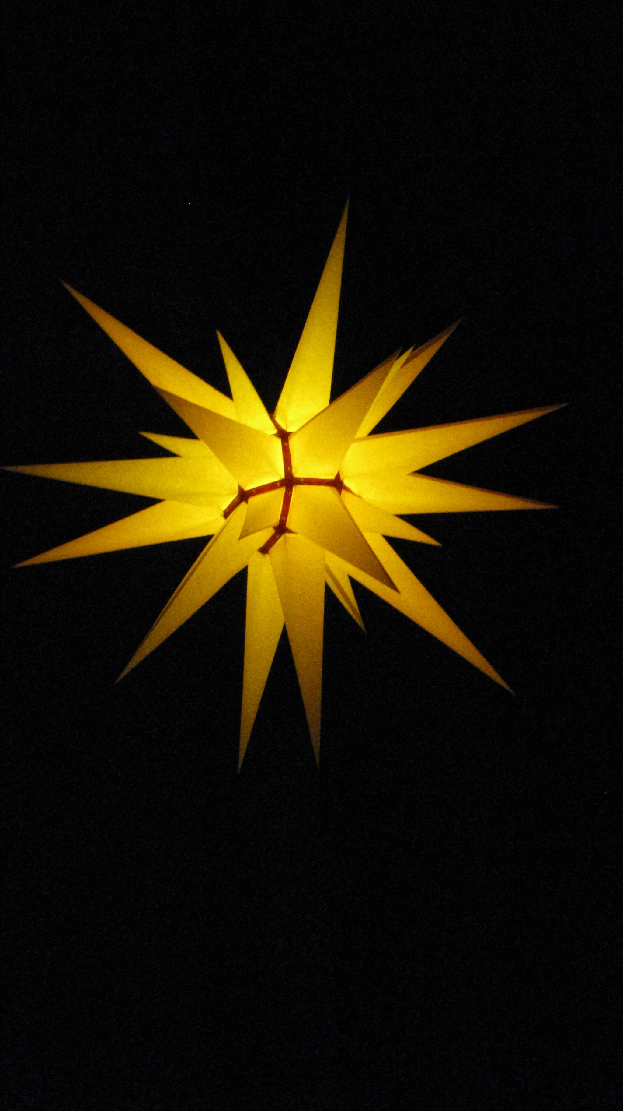 Herrnhut Star in the Marienkirche, Lübeck, Advent 2010